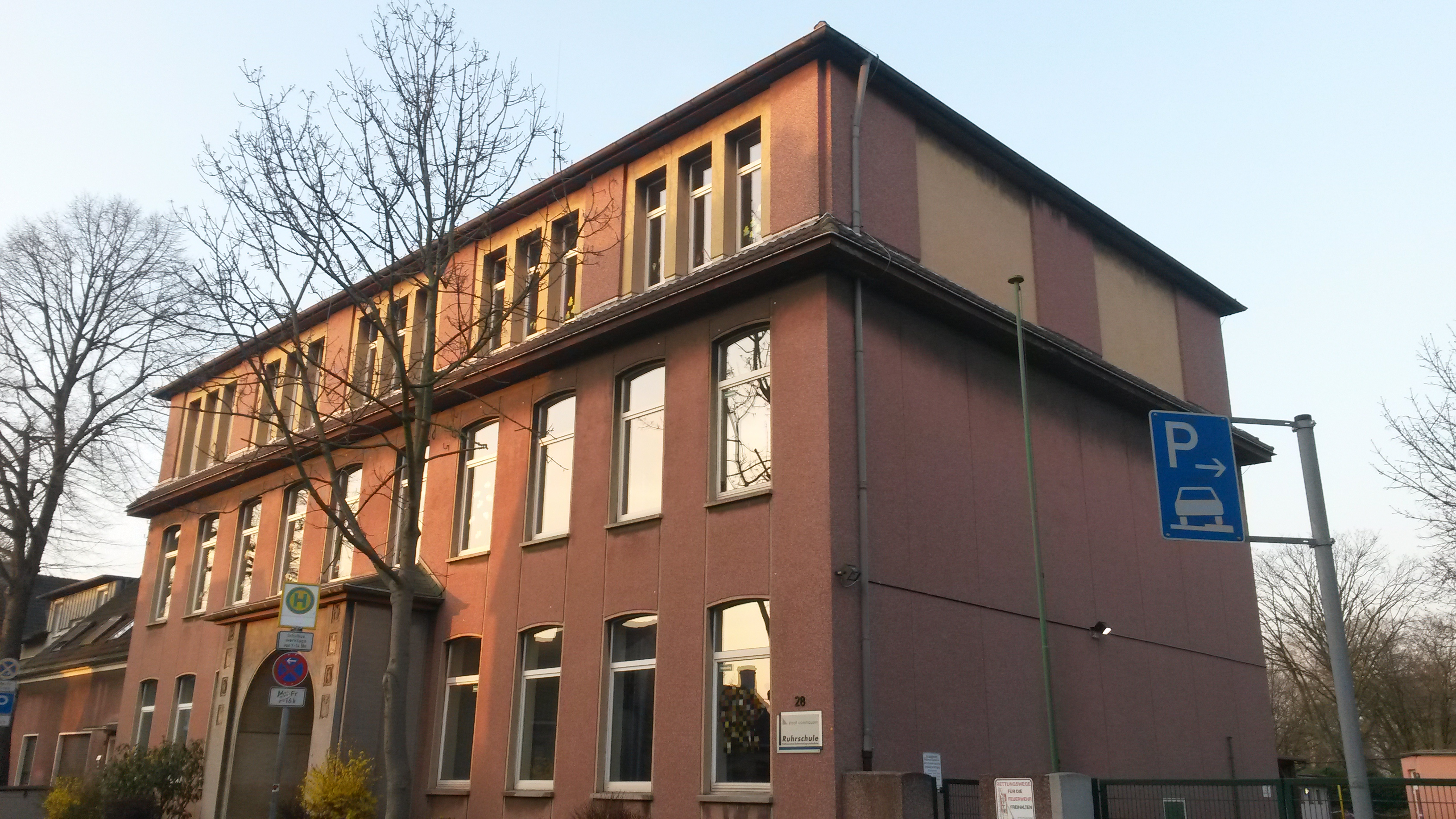 The main building of the elementary school Ruhrschule in Alstaden, Oberhausen/ Northrhine-Westphalia, Germany